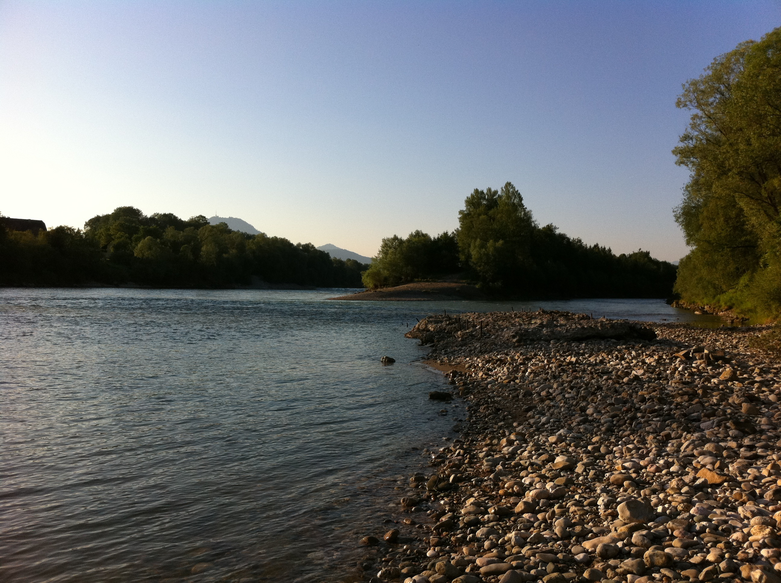 The so-called Saalachspitz is the meeting of the rivers Saalach (right) and Salzach (left). The border between Germany and Austria follows the middle of the Saalach and, starting at this point, of the Salzach all the way down to its confluence with the Inn river near Simbach (Bavaria) and Braunau am Inn (Austria). The picture shows the rivers upstream, the areas on the left side and in the centre belong to the Austrian city of Salzburg, the one at the right side is part of the Bavarian city of Freilassing. The forest between these rivers is part of a small landscape protected area.